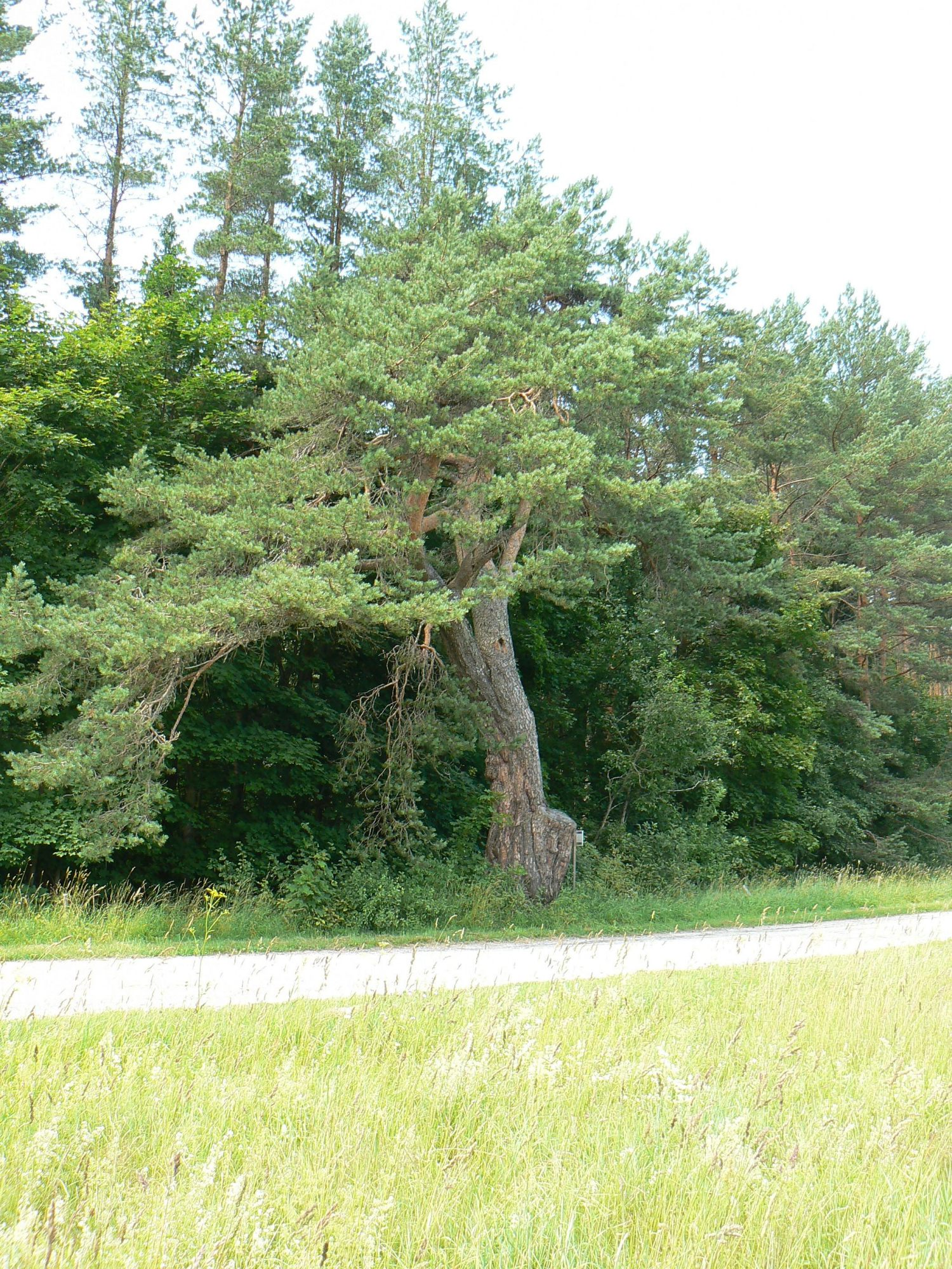 Lavi pine in Estonia